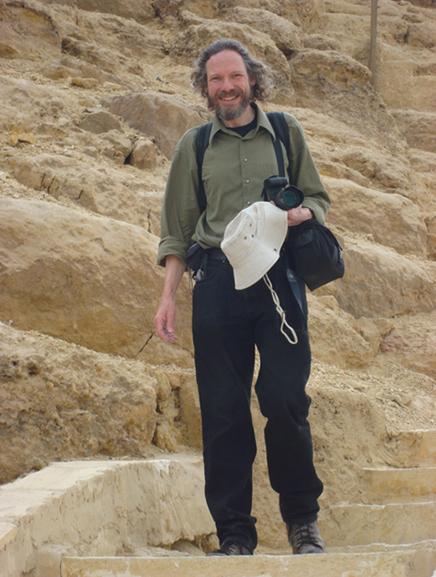 Robert M. Schoch in Egypt, Photo by Catherine Ulissey